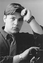 Photo of Shane Salerno